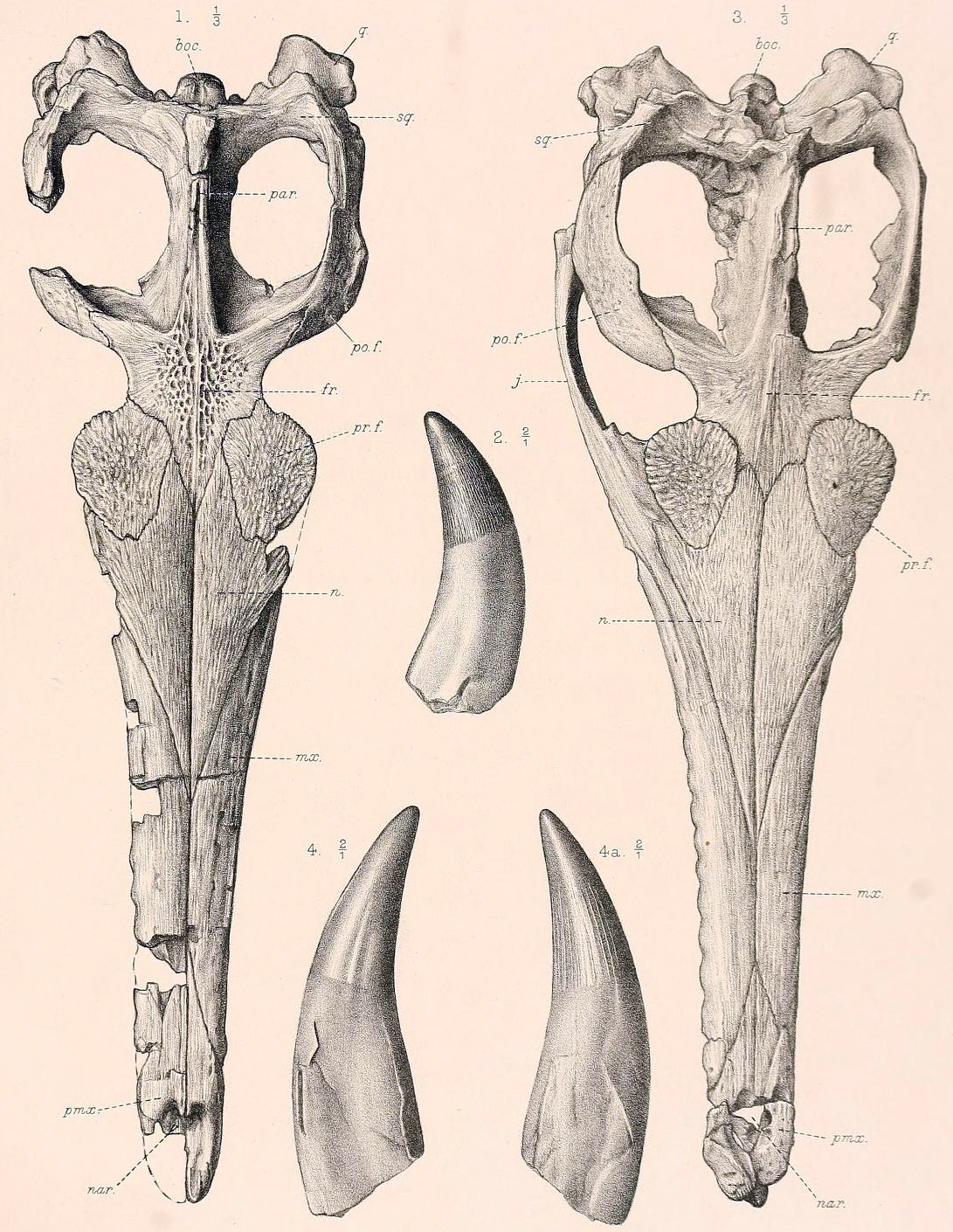 Metriorhynchus superciliosus and M. moreli skulls.